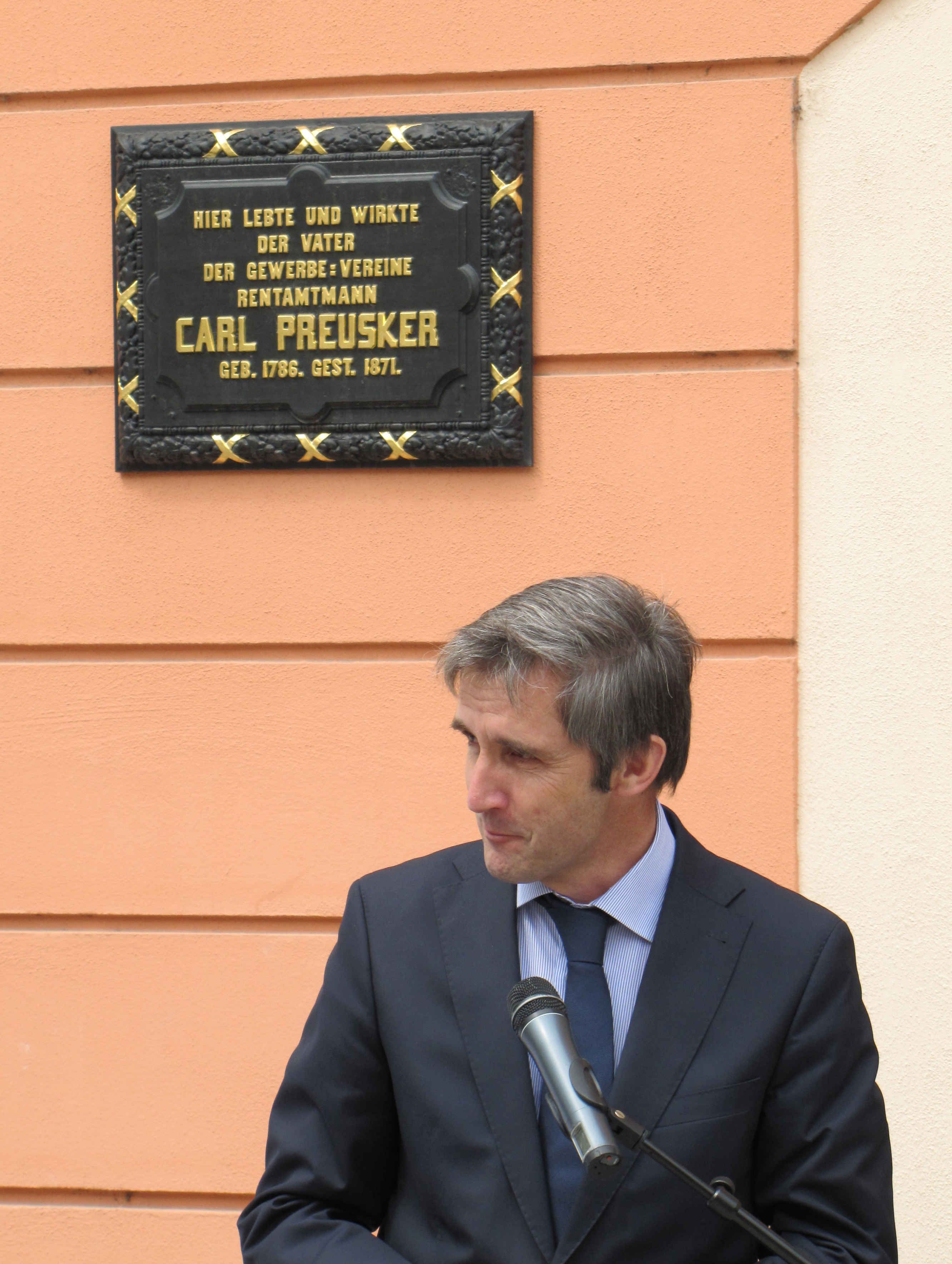 Frank Richter, President of the Saxon State Agency for Civic Education, speaking on the correlation between education and democracy during prize-giving ceremony "Politischer Ort in Sachsen 2011" to the Karl-Preusker-Bücherei on May 31, 2012